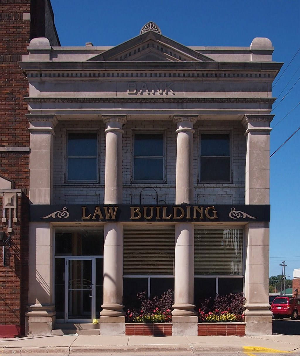 Pope County State Bank building (now the law offices of Nelson, Kuhn & Nordmeyer), 14 S. Franklin Ave, Glenwood, Minnesota, USA. Viewed from the east.